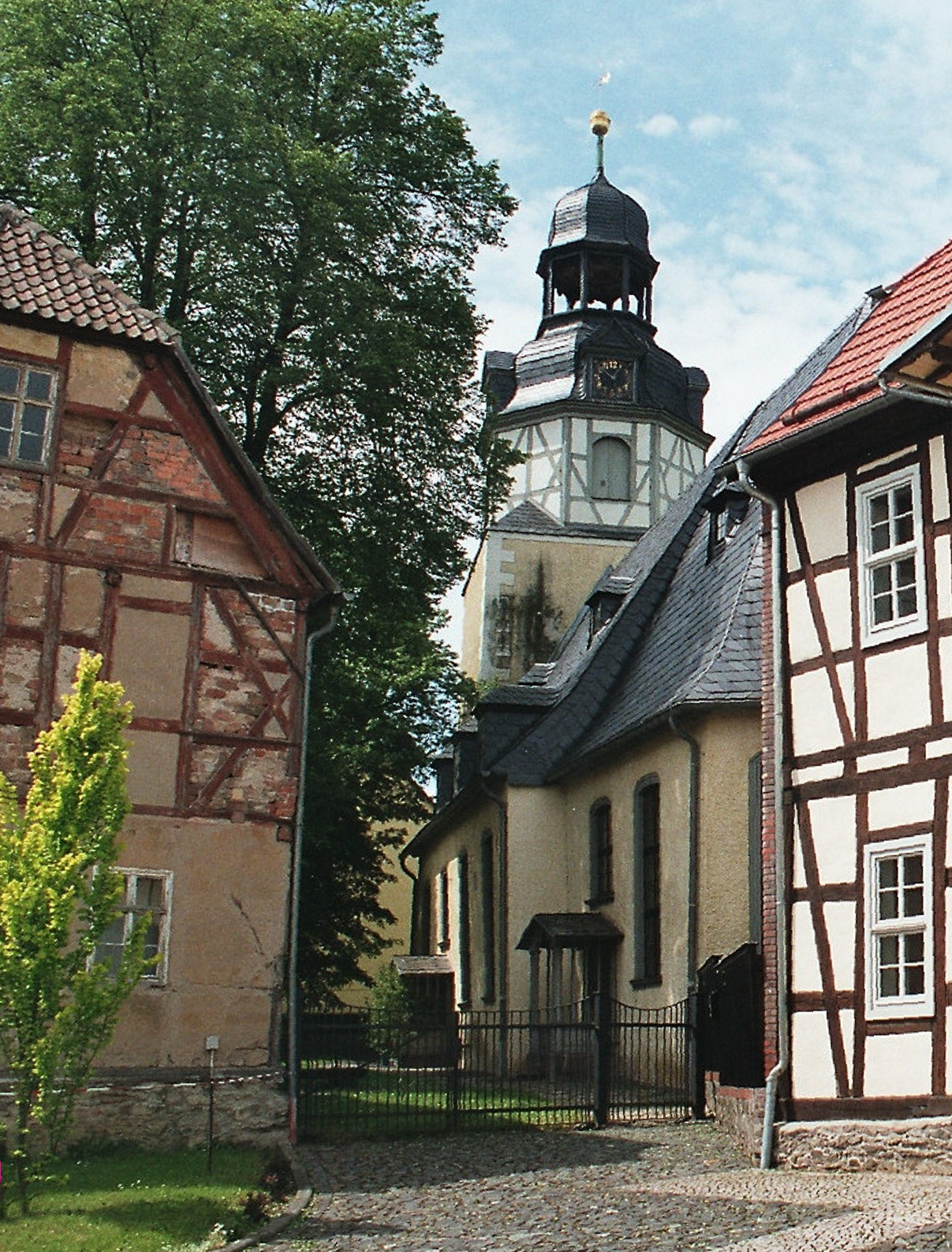 Wippra, St. Mary´s Church This is a photograph of an architectural monument. 65225